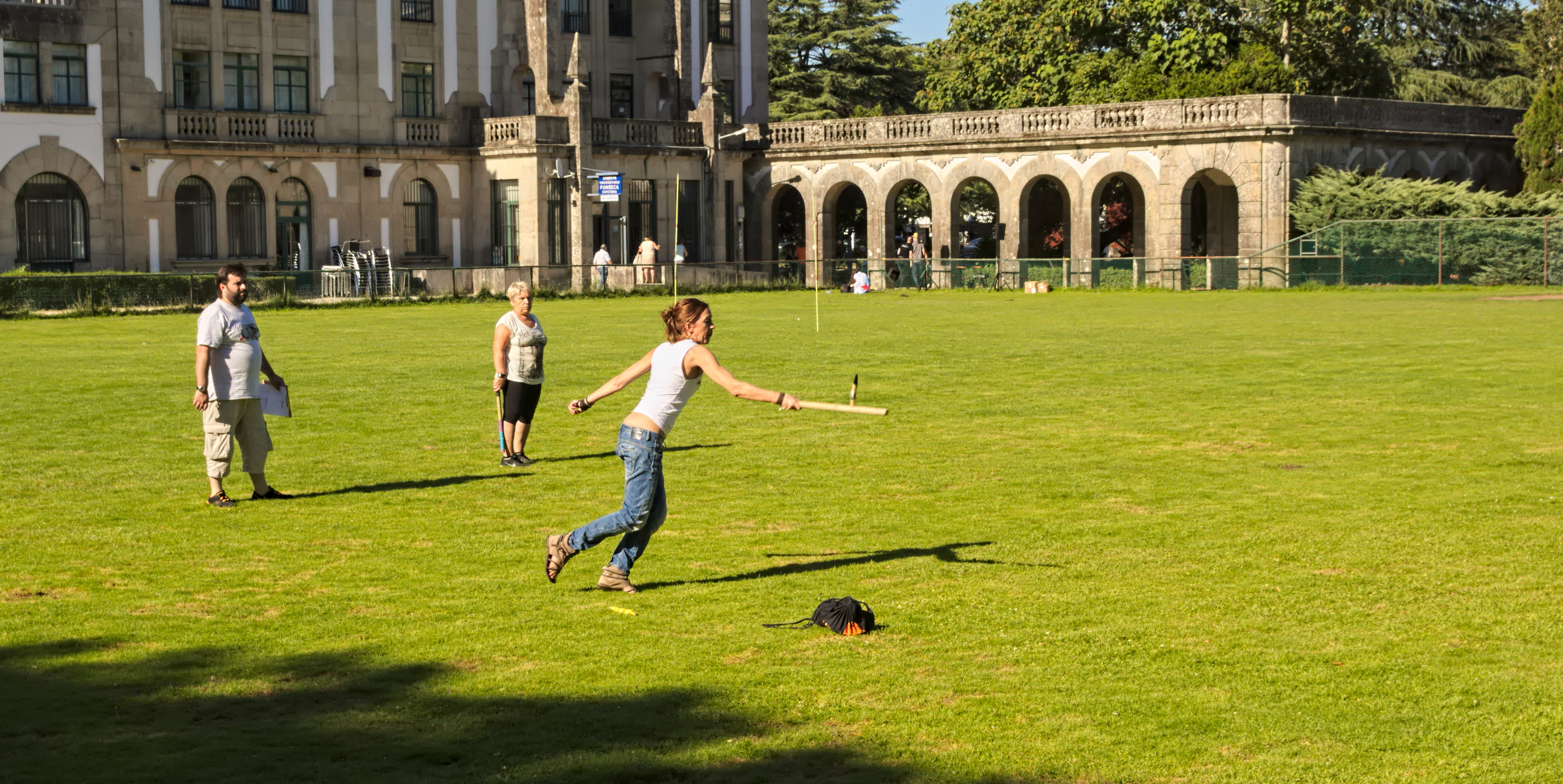 Game of billarda in Santiago de Compostela, Galicia, Spain.